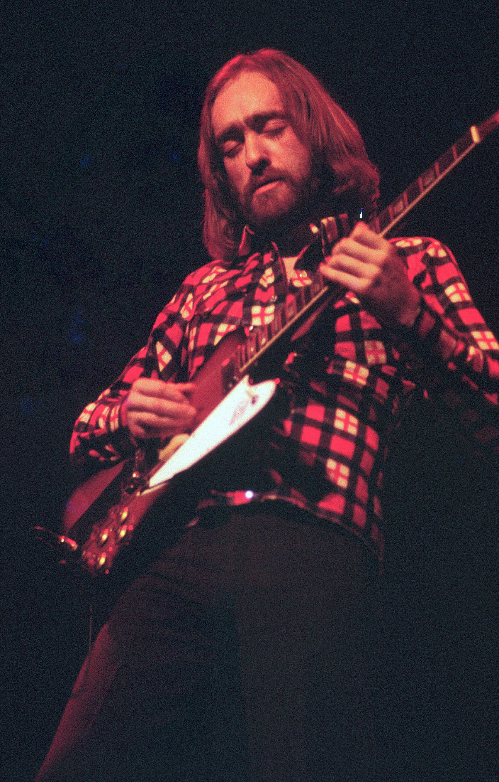 Dave Mason, English guitarist